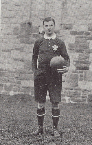 William 'Willie' Llewellyn, Wales international rugby union player, taken while captain of Walesw against England in 1904